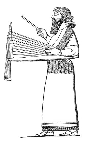 Assyrian horizontal angular harp from Nimrud